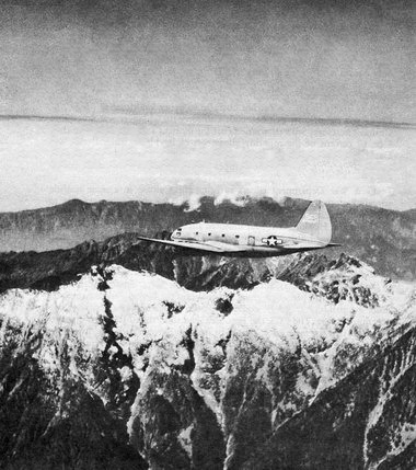 C-46 flying over the Himalaya